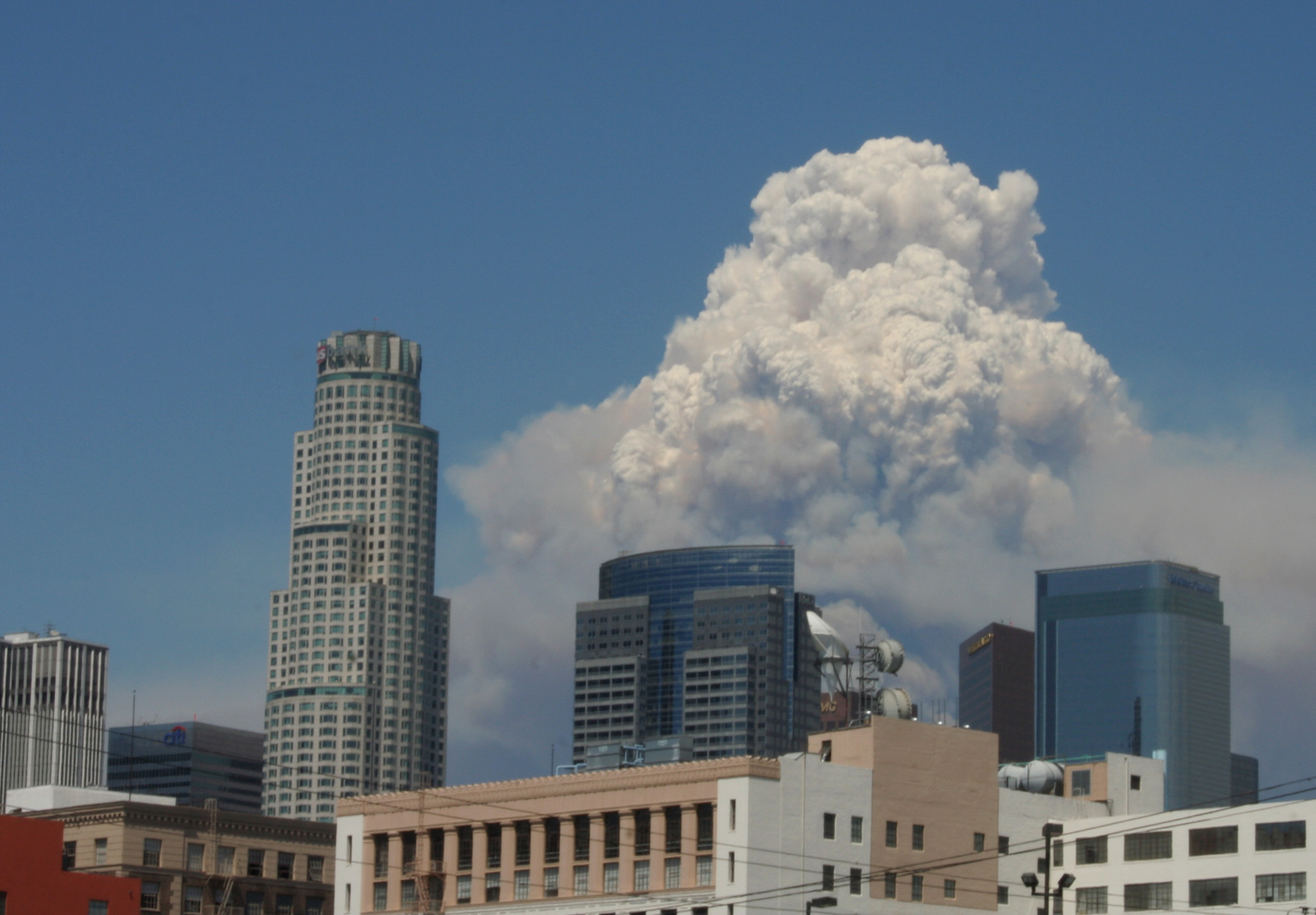 A pyrocumulus cloud forms over Downtown Los Angeles during the August 2009 Station Fire.